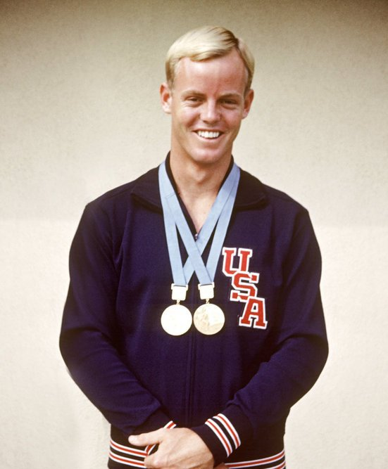 Donald ("Don") McKenzie wearing his two gold medals after the Mexico City Olympics in 1968.